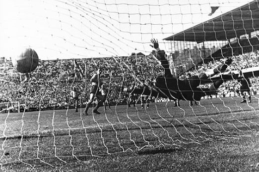 Swedish footballer Liedholm scoring a goal (2-0) in Sweden-Mexico, 1958 World Cup.